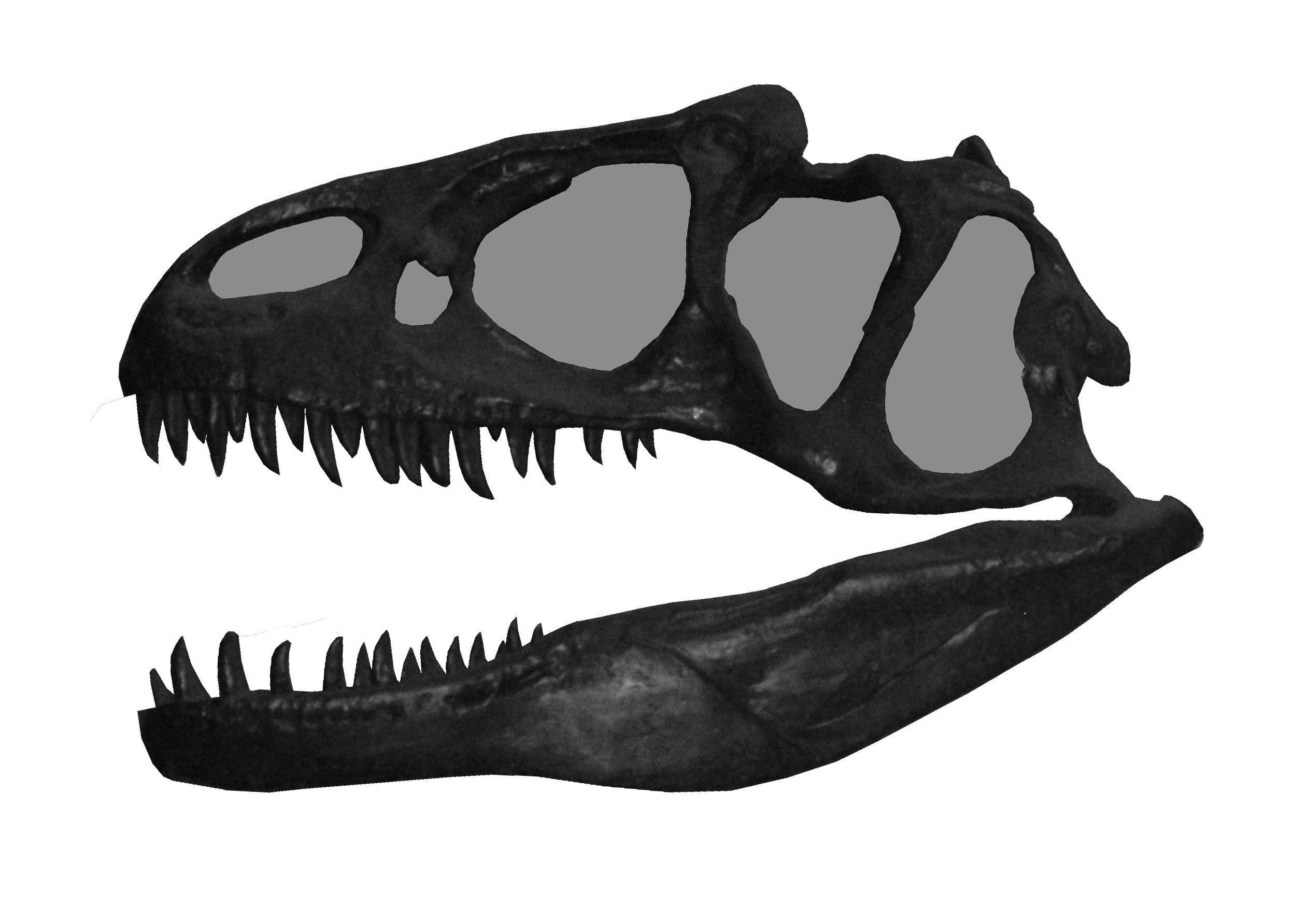 Skull of the carnivorous dinosaur Allosaurus, showing the holes in the cranium. The skull is based on a picture from the specimen mounted in Natural History Museum, London.